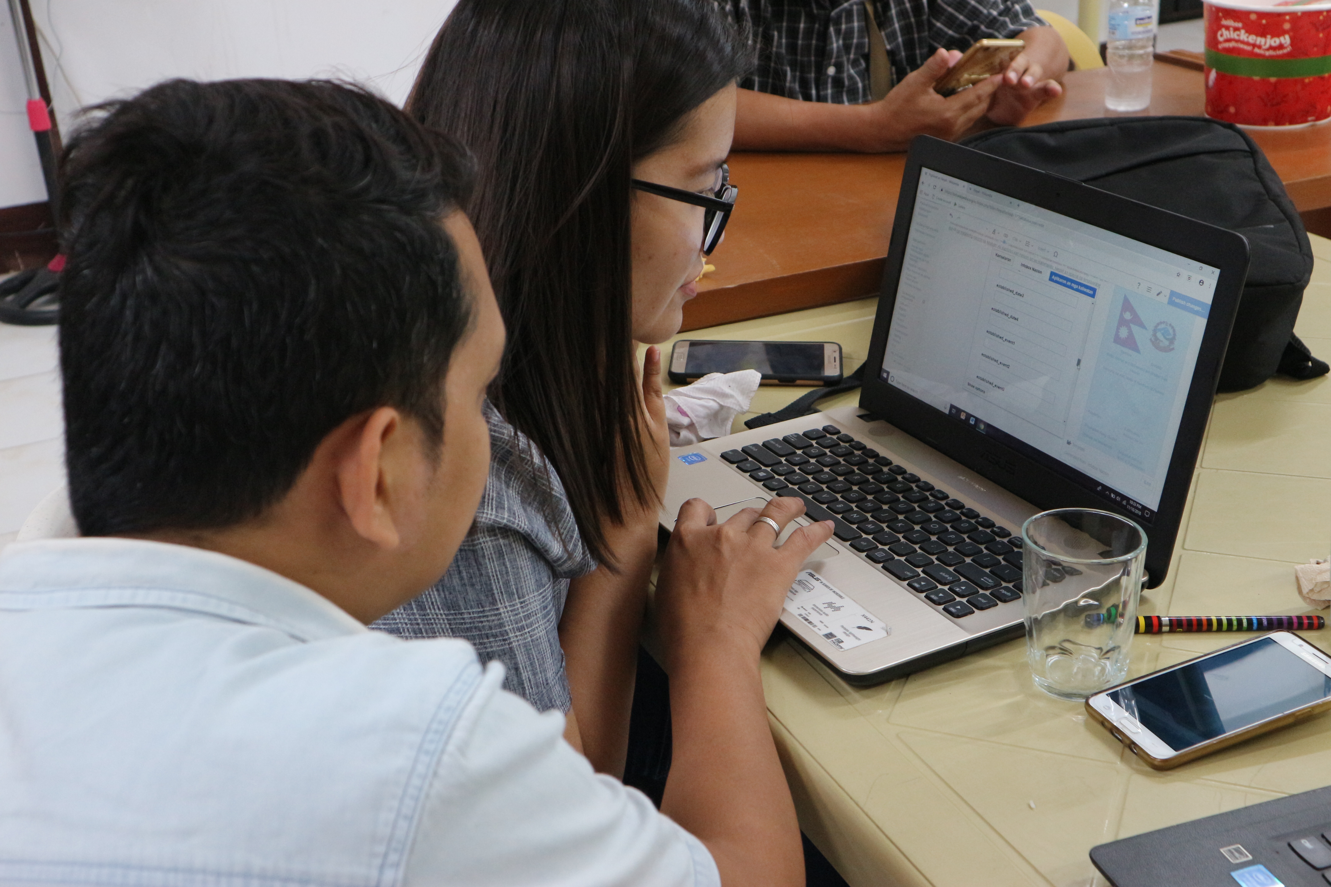 WikiTutorial Session 1 participants held at Central Bicol State University of Agriculture